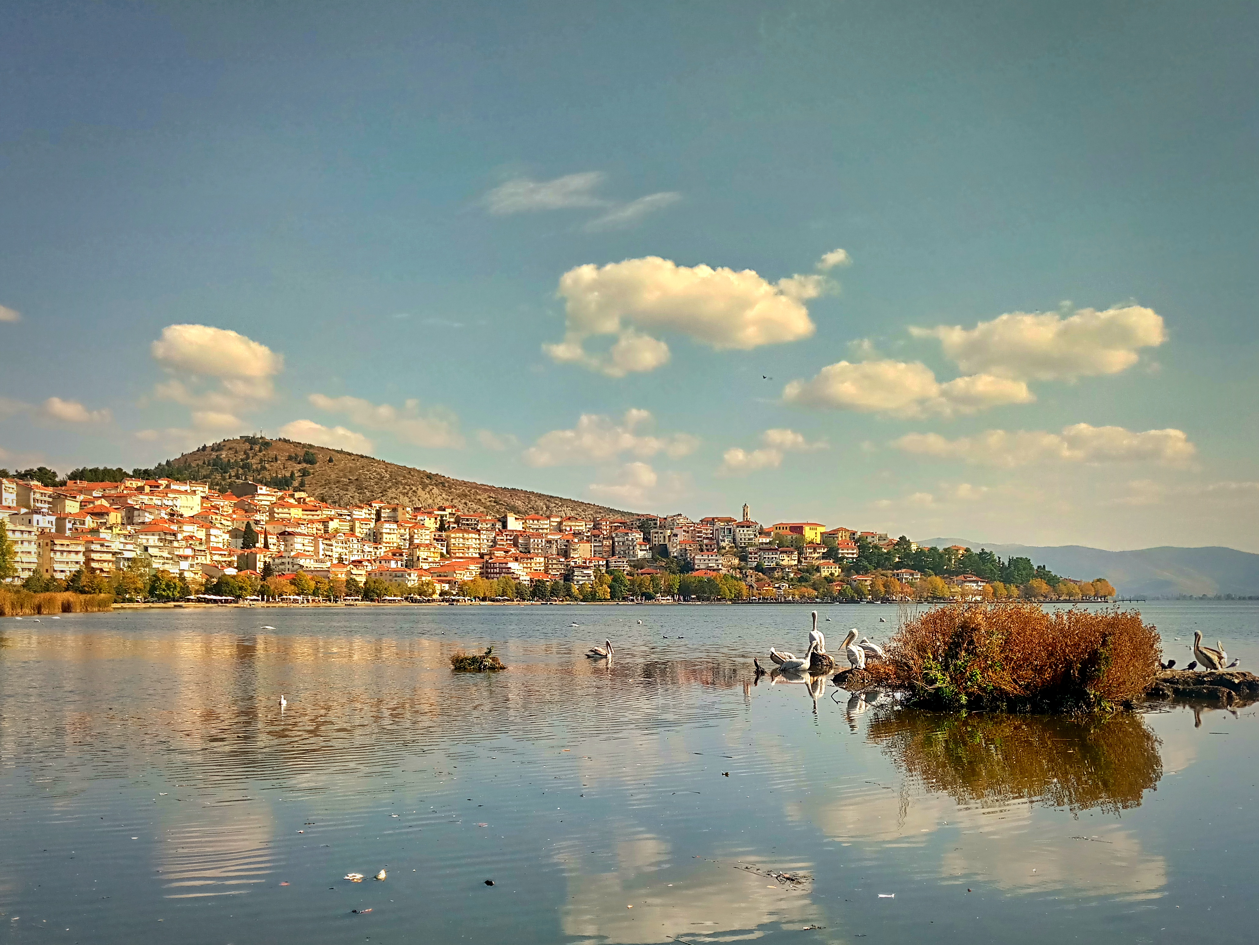 This is a photography of Natura 2000 protected area with ID GR1320001